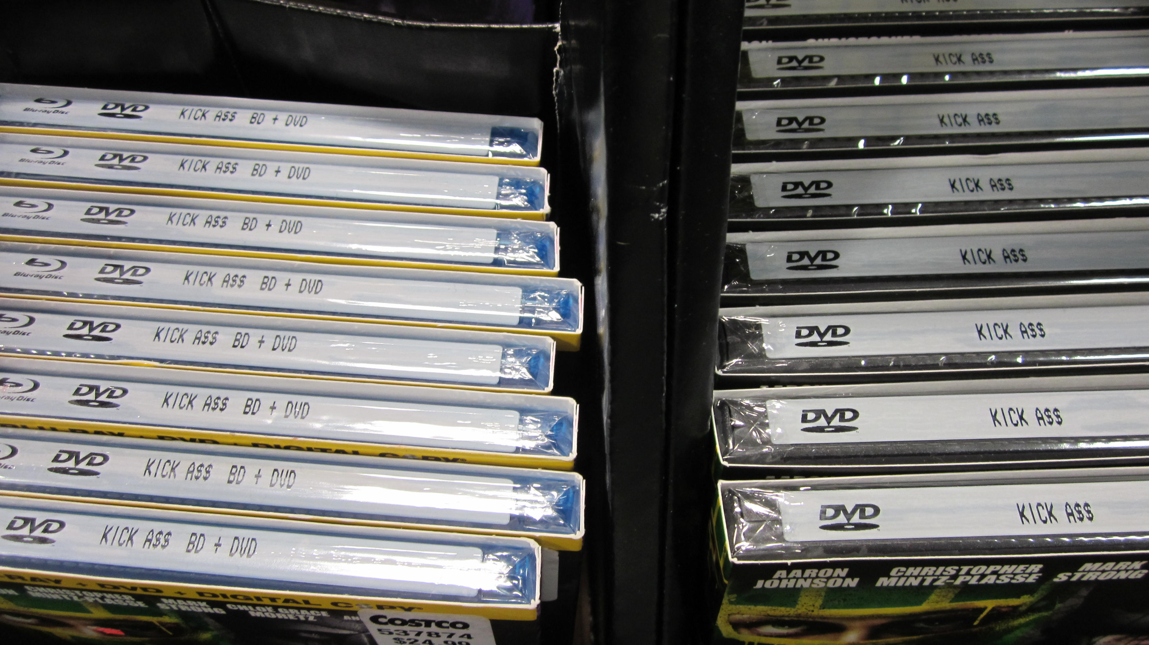 Kick-Ass Blu-rays and DVDs at Costco Warehouse no. 475 in South San Francisco, California.